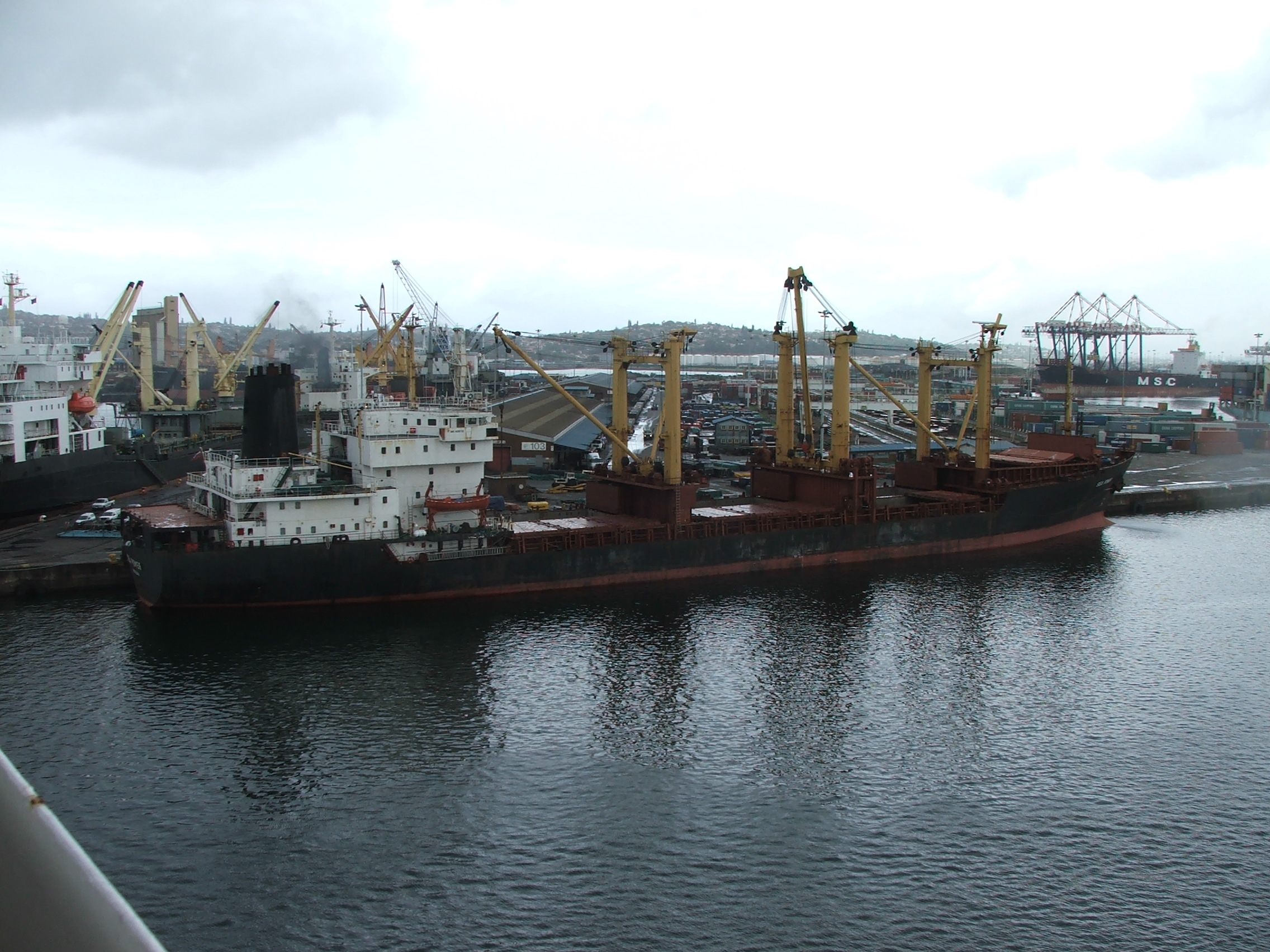 Warnow Type Monsun in Durban